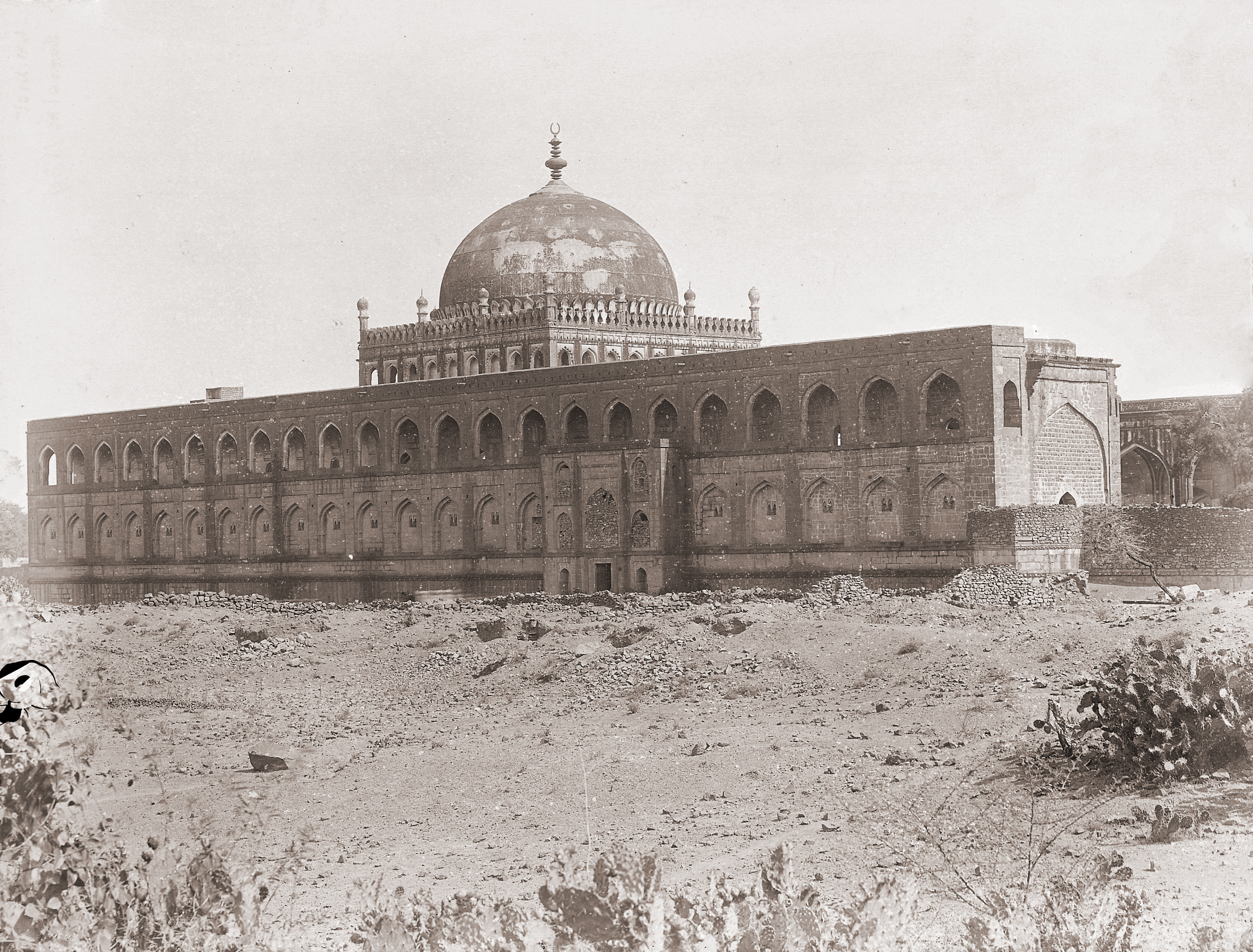 View from the south-east of the Jami Masjid, Bijapur.